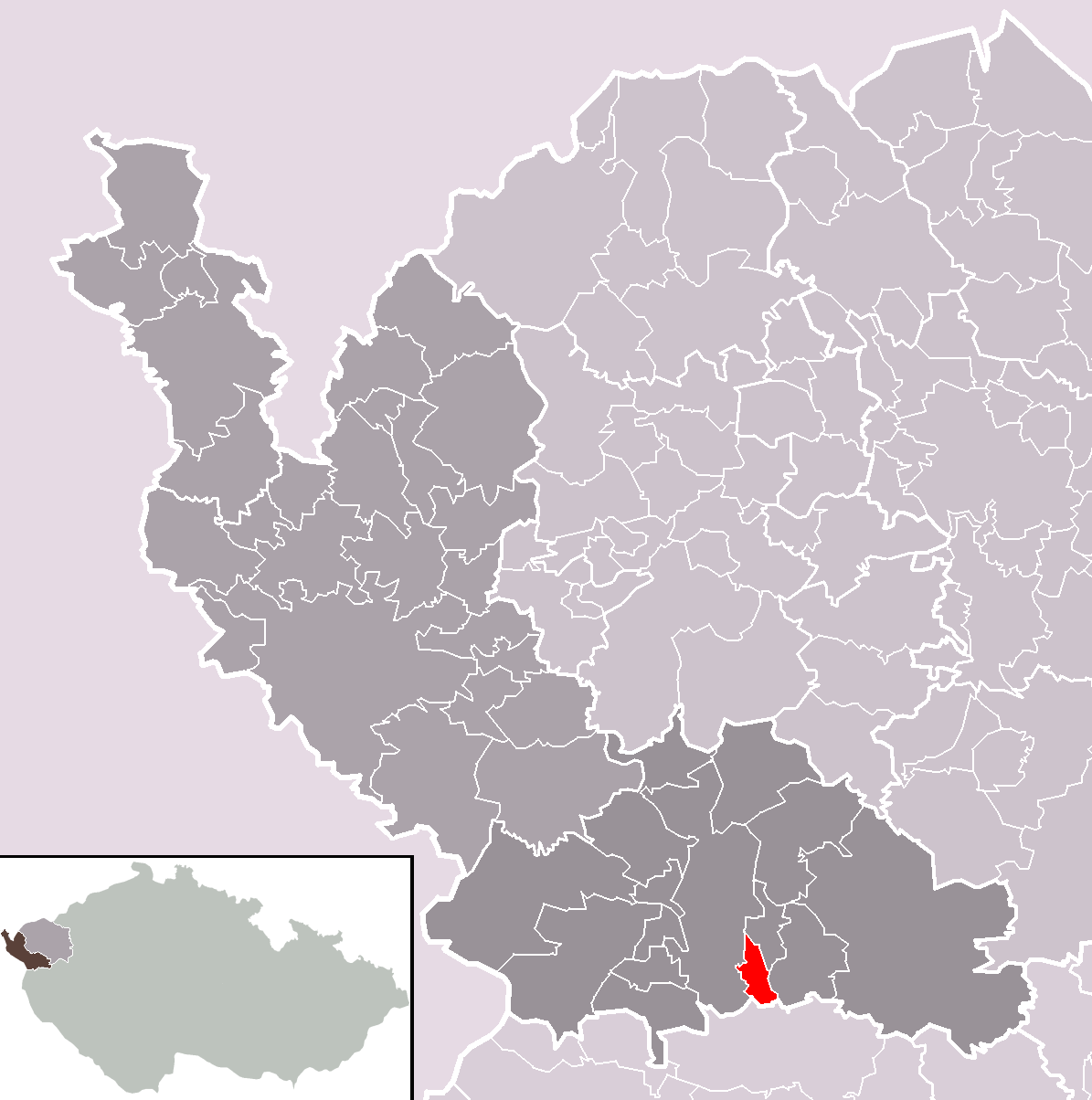 Location of Vlkovice municipality within Cheb District and administrative area of Mariánské Lázně as a Municipality with Extended Competence.